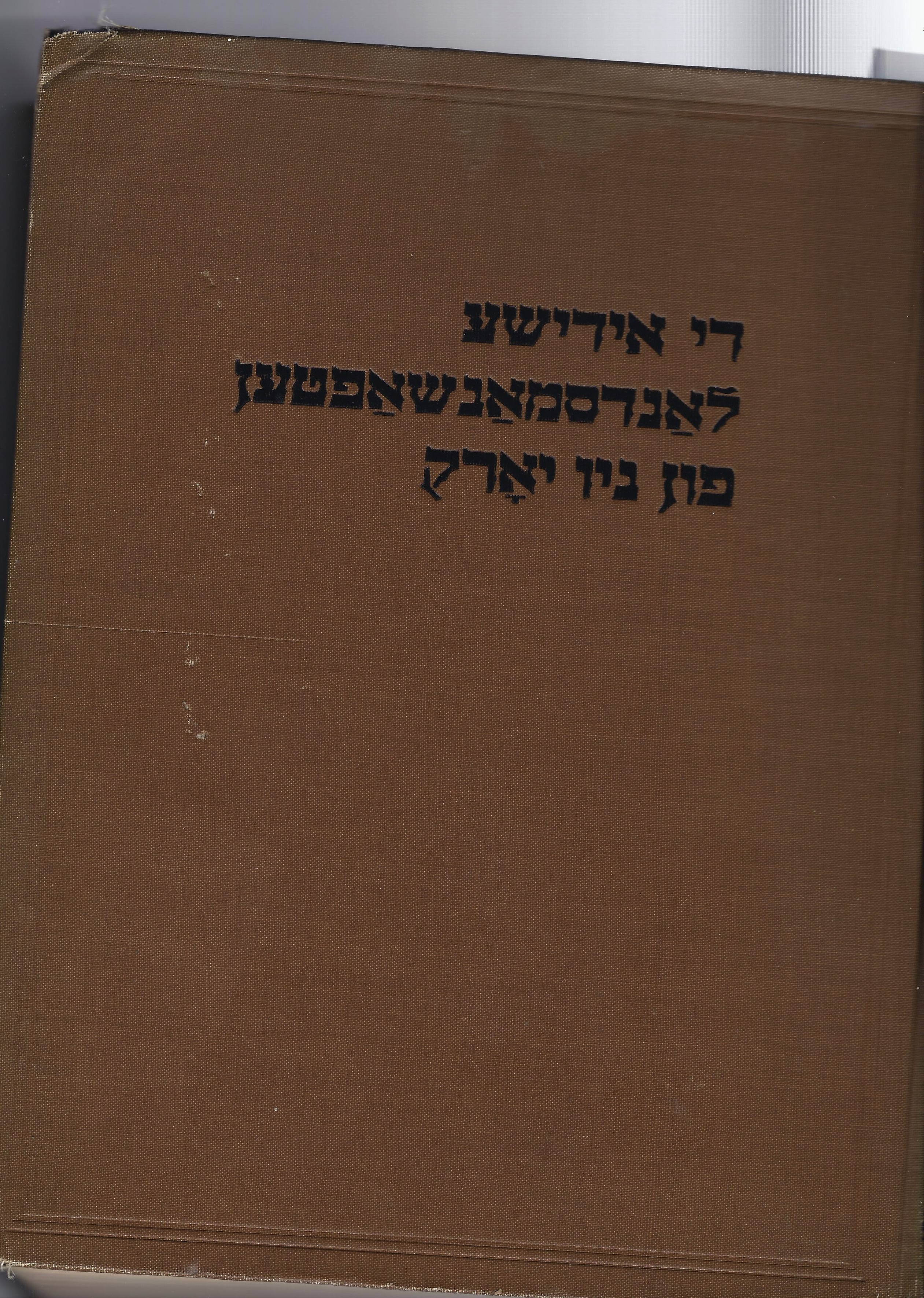 Cover of the WPA book on Jewish Landsmanshaftn of New York